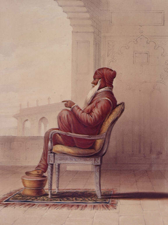 A portrait of Ranjit Singh, Maharaja of the Punjab, 1780-1839, by Emily Eden; London, 1844